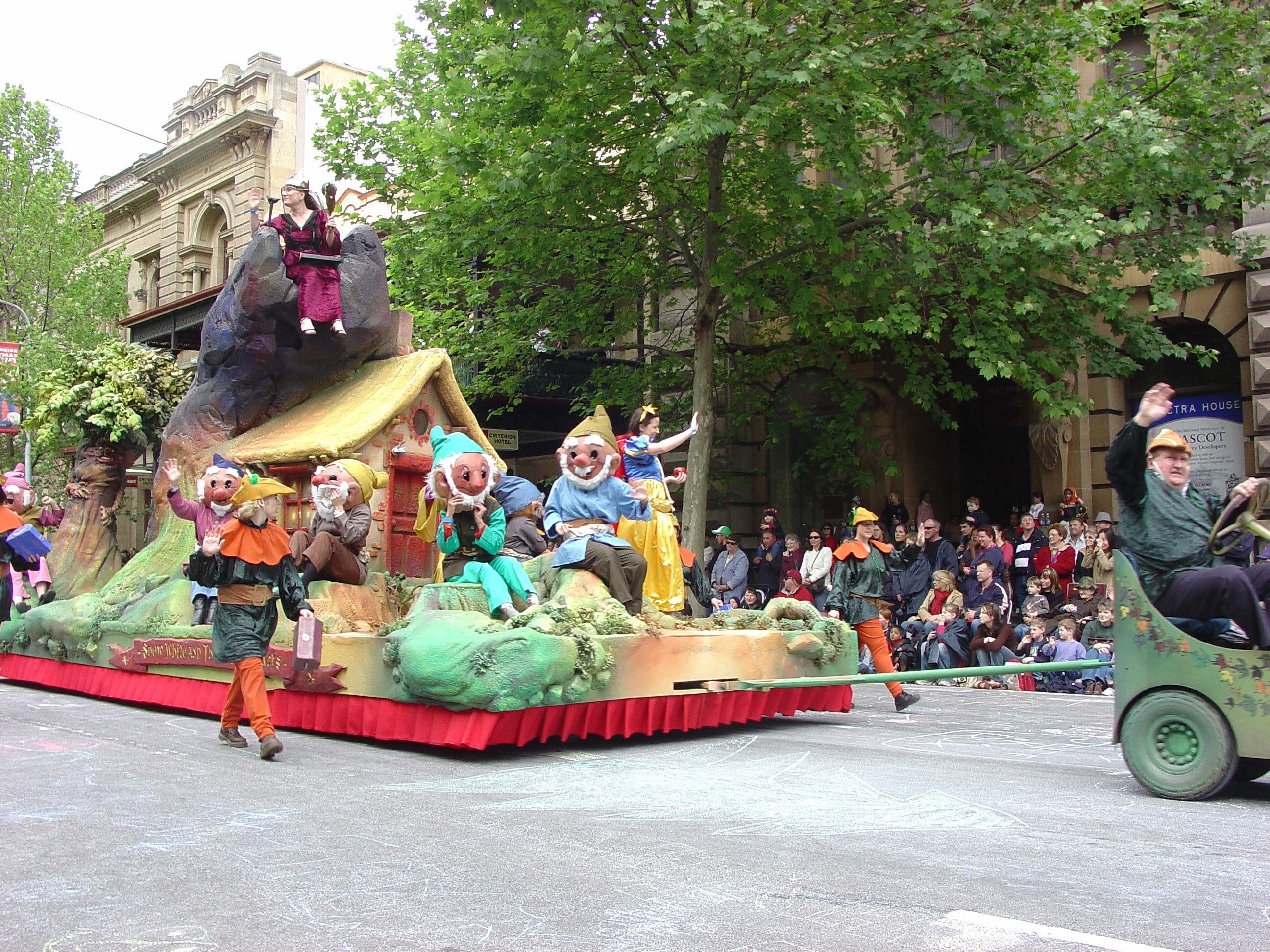 The Snow White and the seven Dwarfs float from the 2004 Credit Union Christmas Pageant in Adelaide, Australia